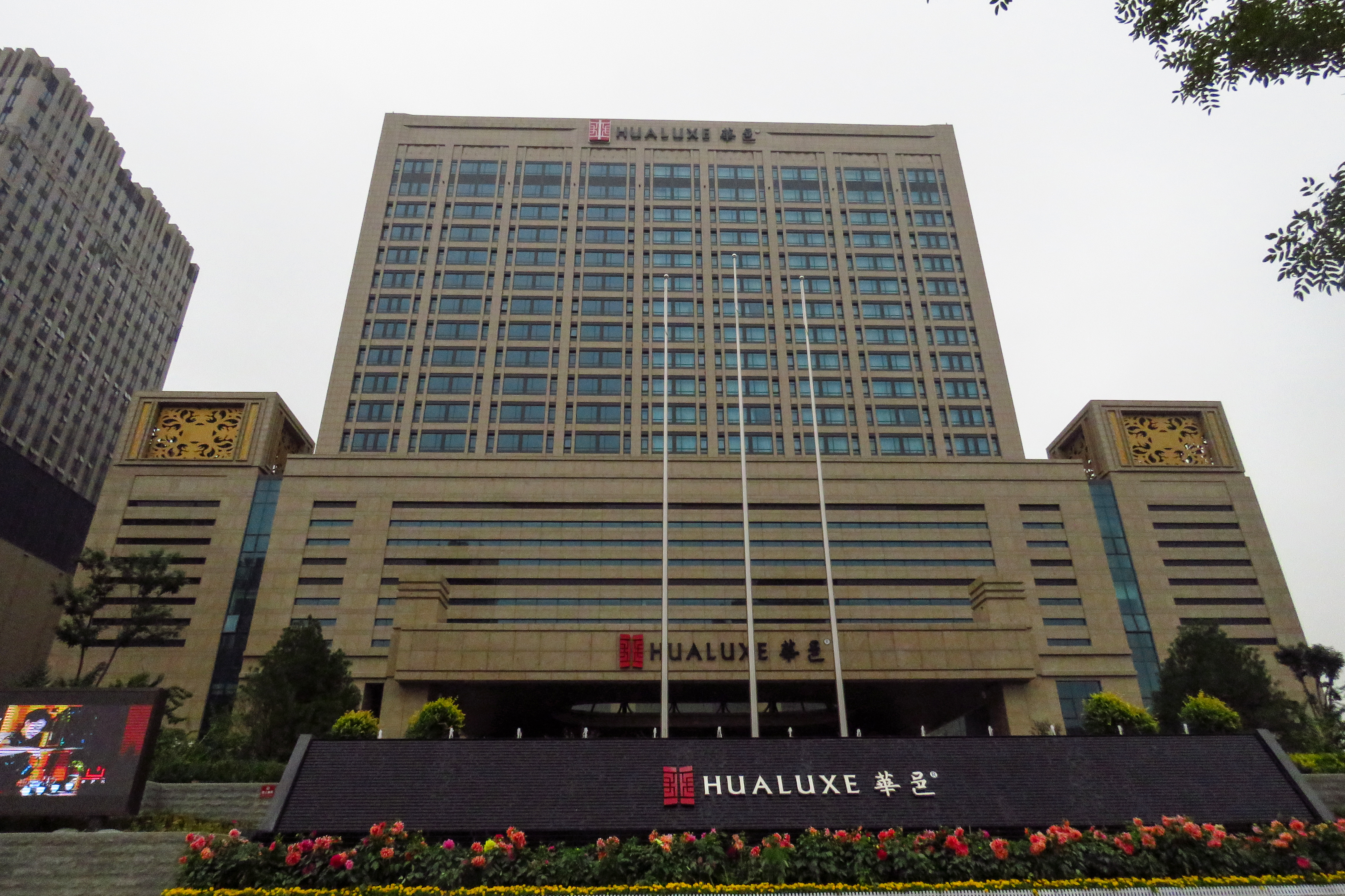 This hotel is just 3 months old... maybe it will go Olympic in 2022.